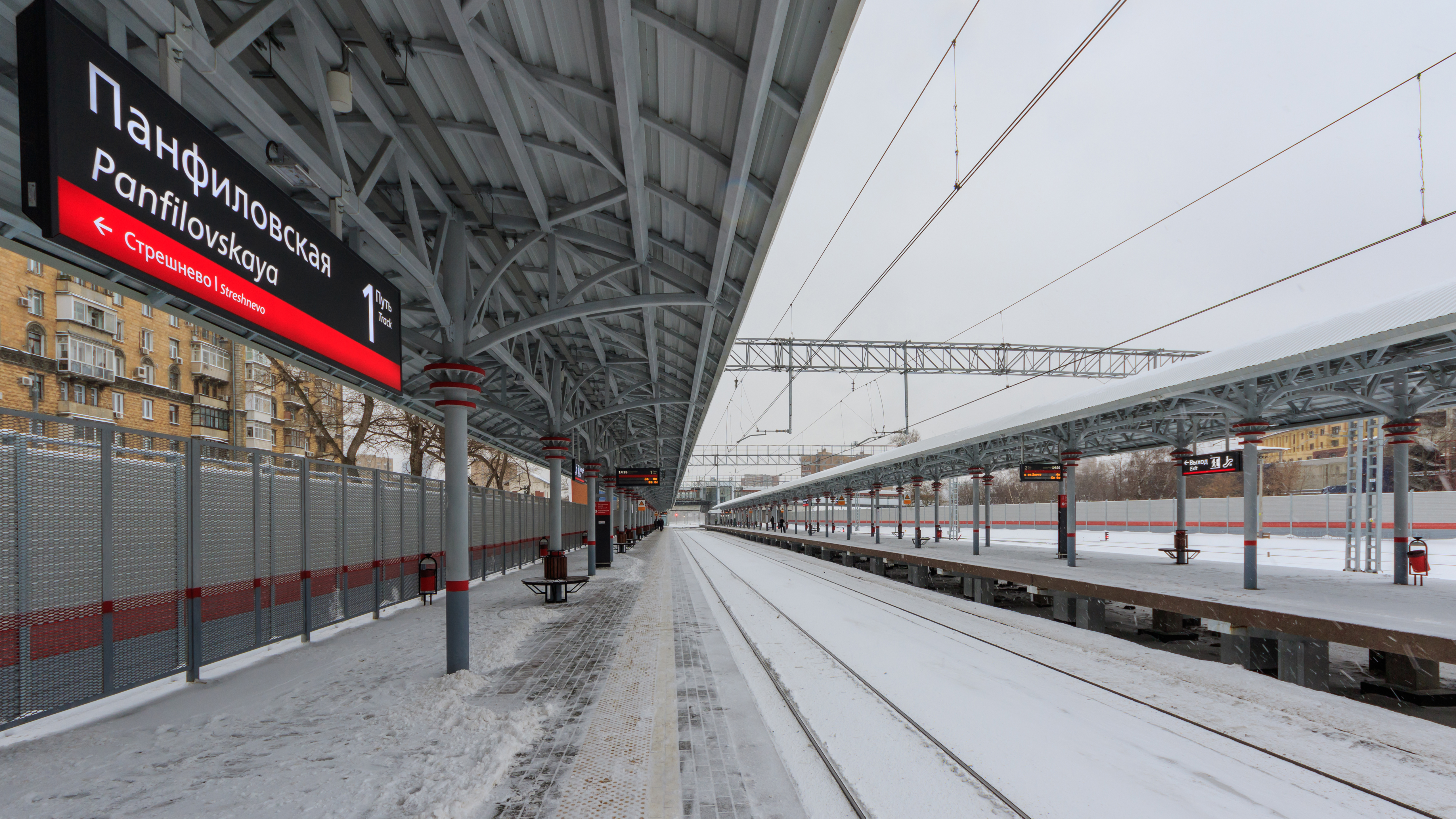 Panfilovskaya MCC station in Moscow, Russia